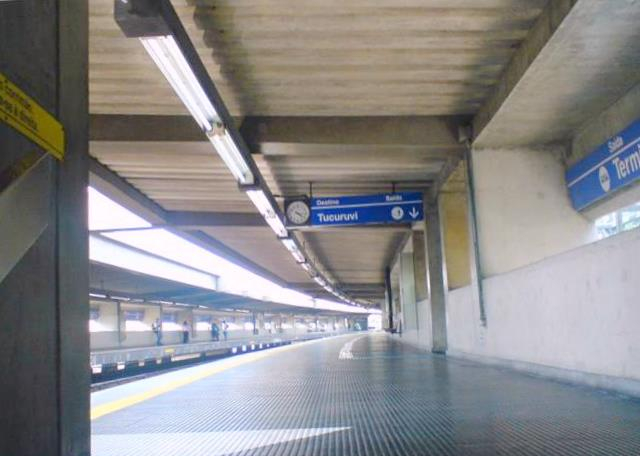 Metrô Armênia